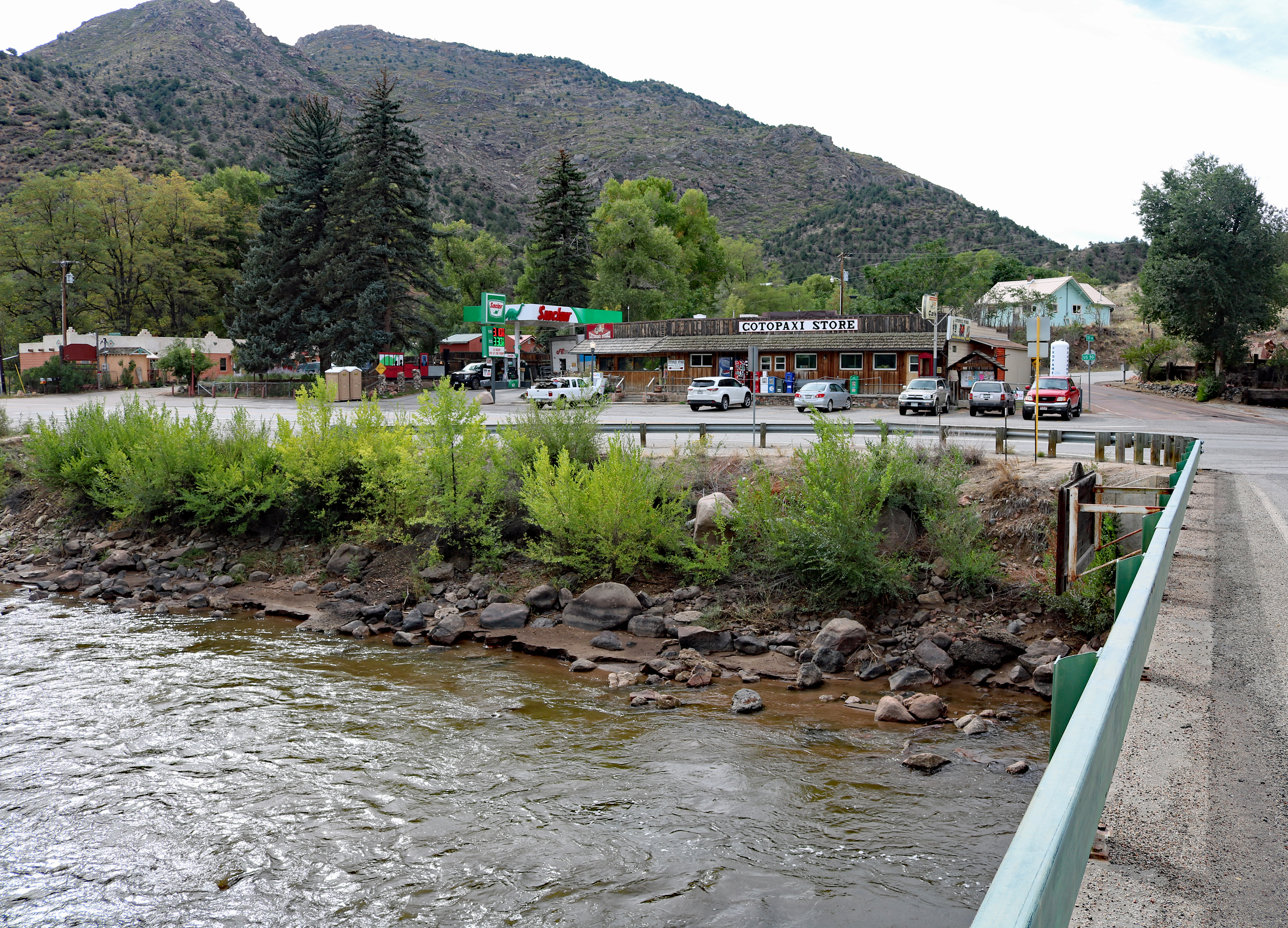 A view of Cotopaxi, Colorado from across the Arkansas River. The view shows Cotopaxi Store and its gas station. U.S. Highway 50 is visible, and the intersection of Fremont County Road 1A and Highway 50 is visible on the right.